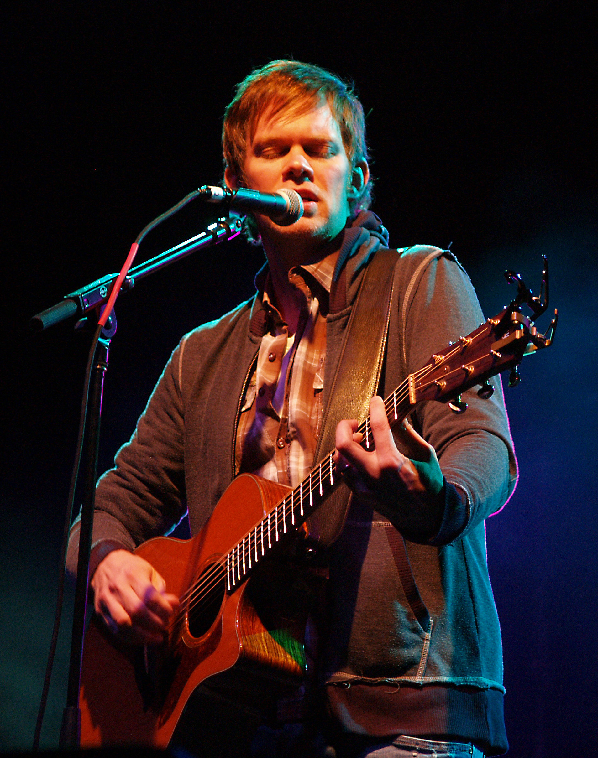 Contemporary Christian music singer Jason Gray